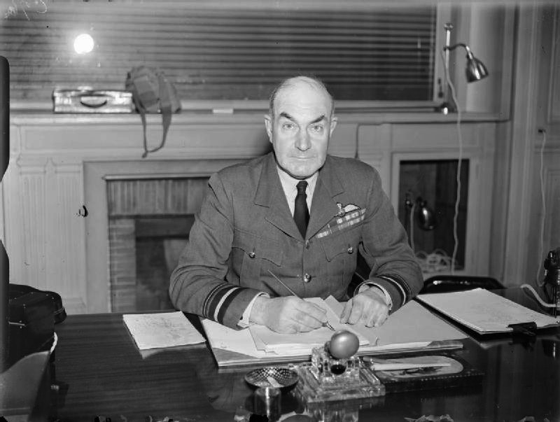 The British Expeditionary Force (bef) in France 1939-1940 Personalities: Air Vice Marshal P H L Playfair, Air Officer Commanding Advanced Air Striking Force, at RAF Headquarters in France.